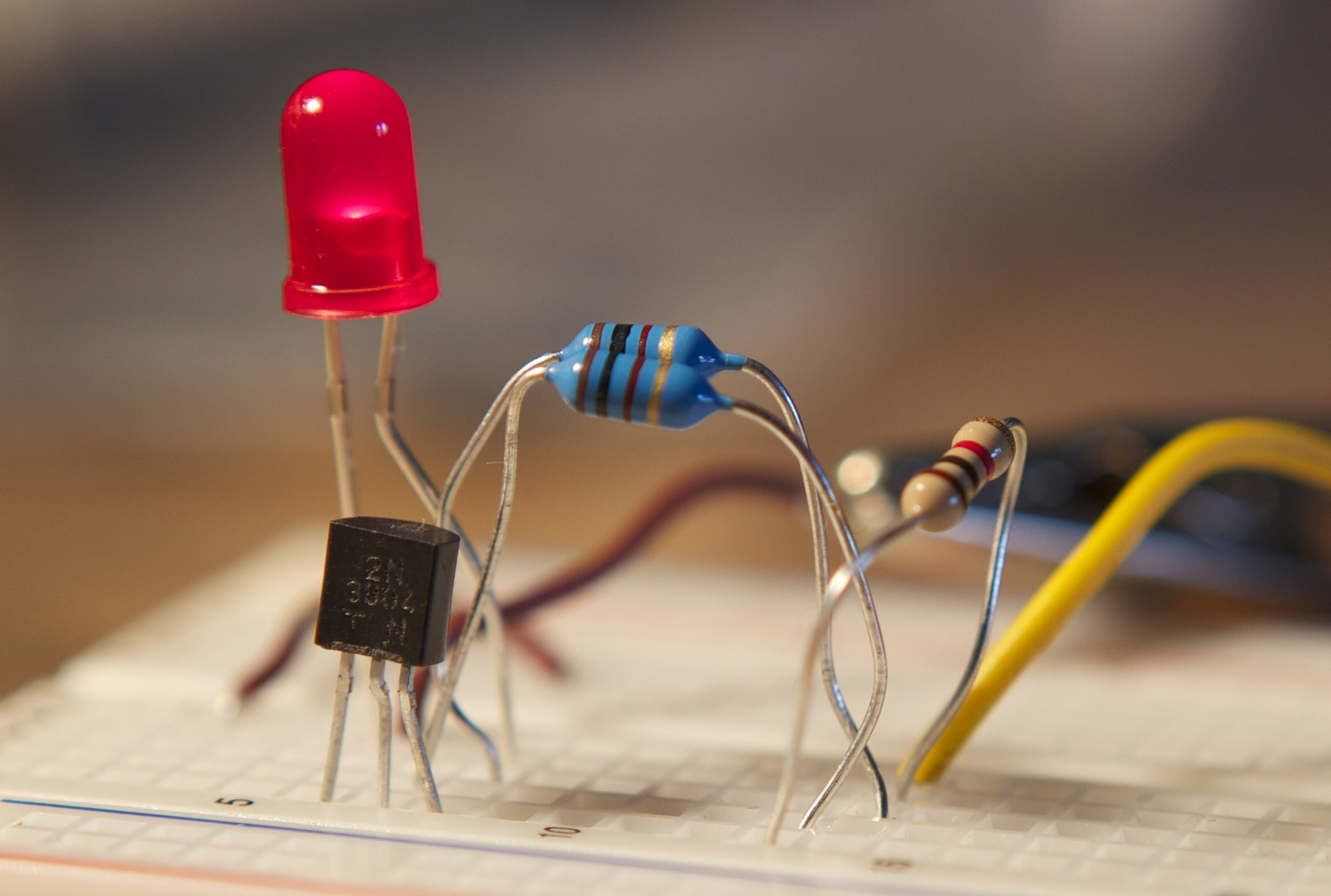 A joule thief constructed on a breadboard.